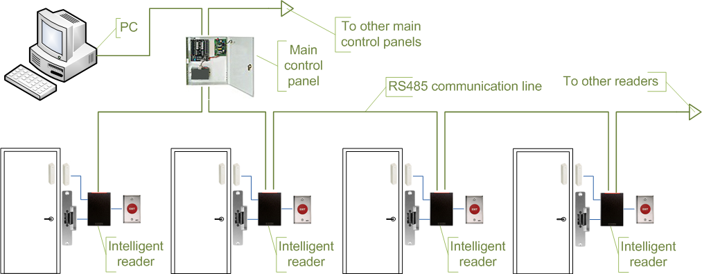 Access control system diagram, using main controllers